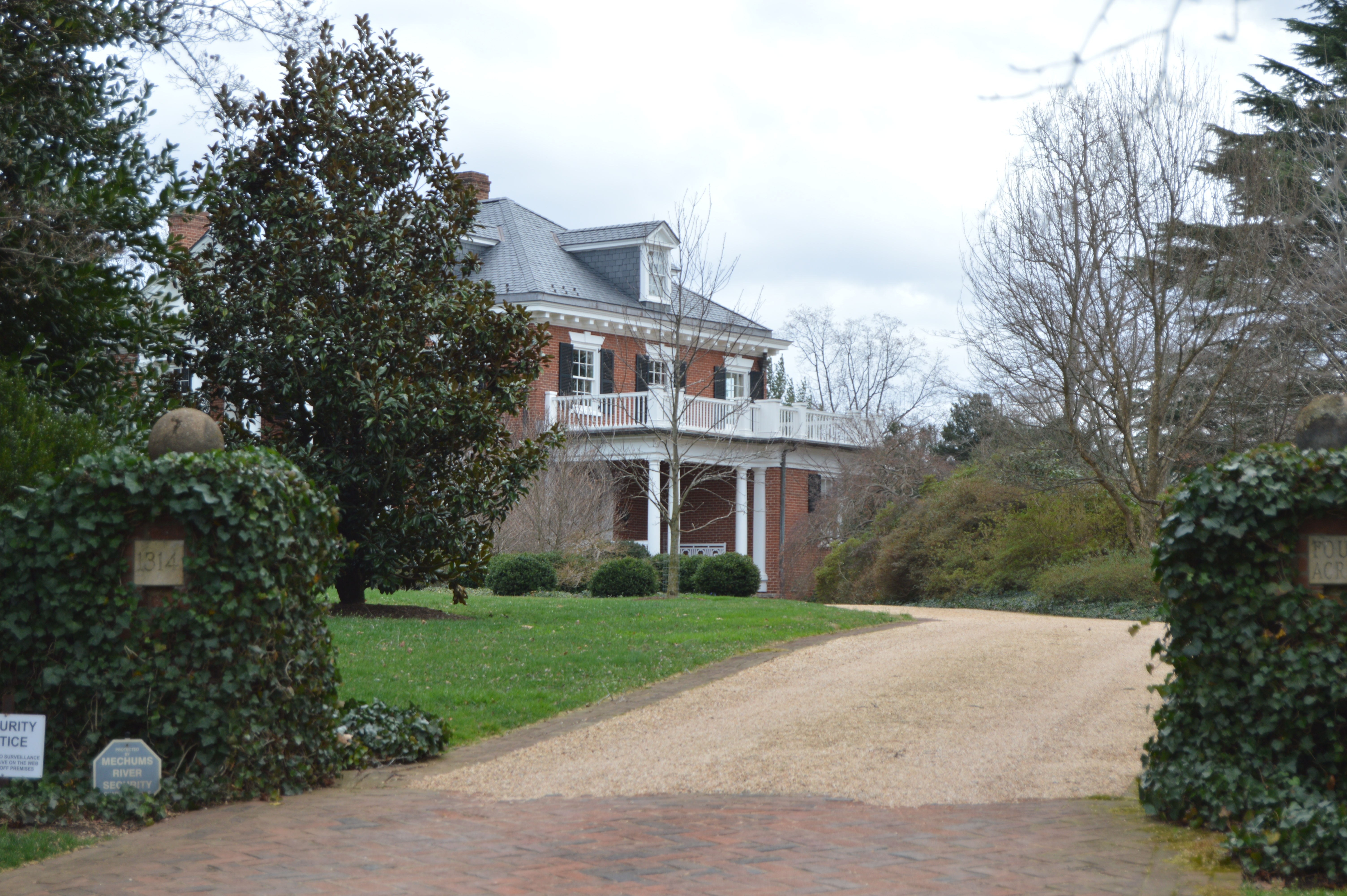 Looking through the gates toward the house at the Four Acres estate, located at 1314 Rugby Road in Charlottesville, Virginia, United States. Built in 1910, it is listed on the National Register of Historic Places.